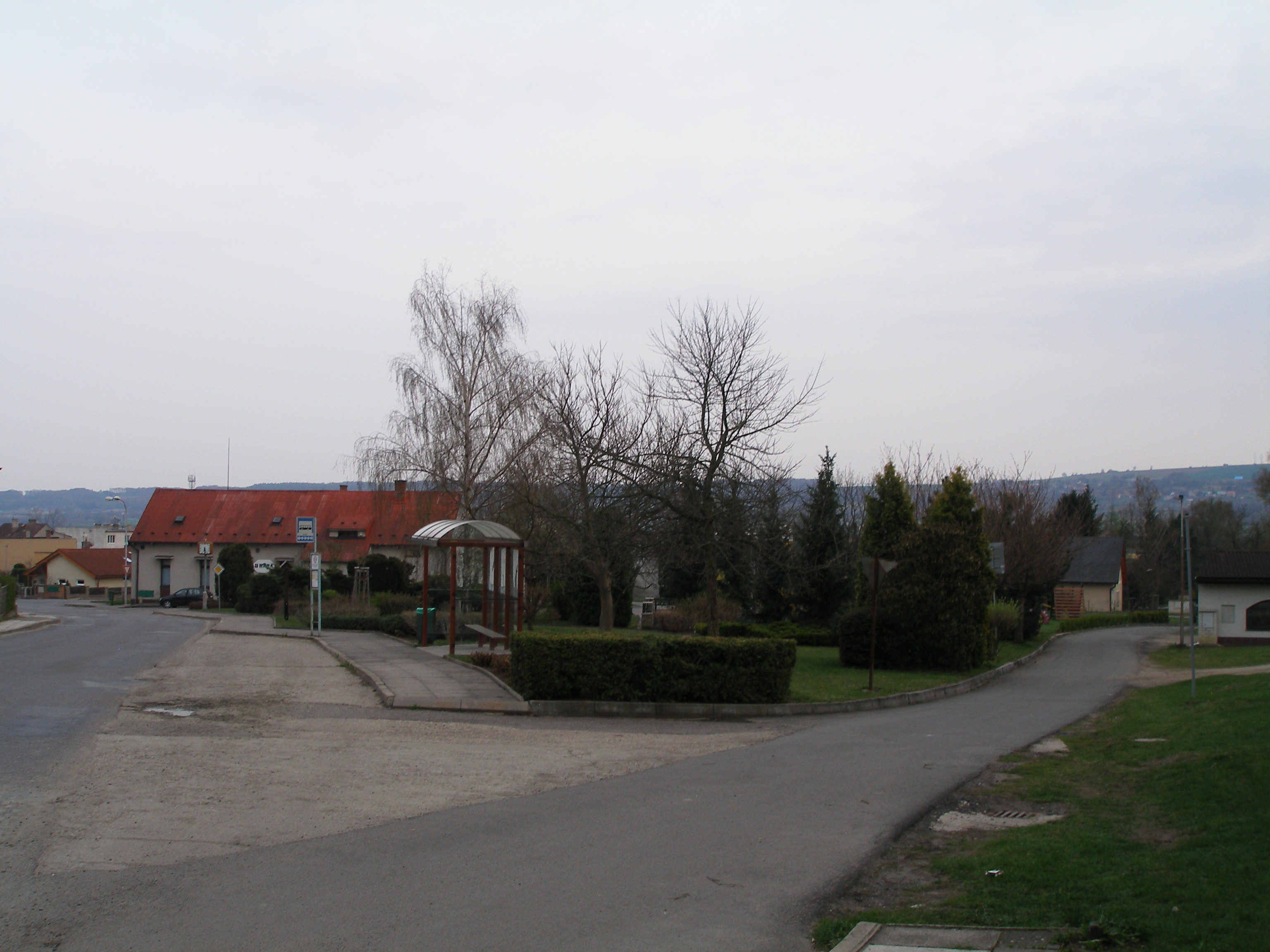 Village square in Plazy.